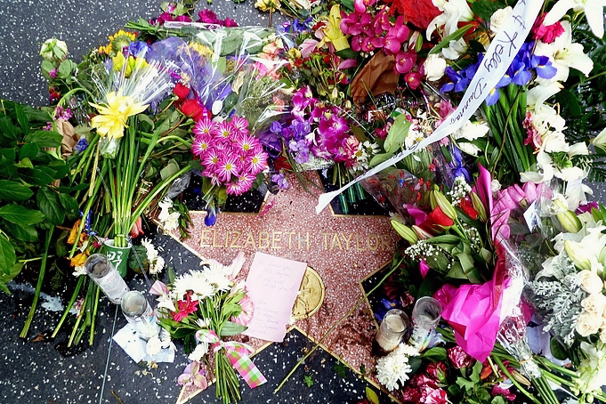 Memorial - Elizabeth Taylor star on Hollywood Walk of Fame.